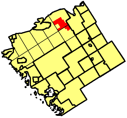 Locater map for Parrysound Restoule